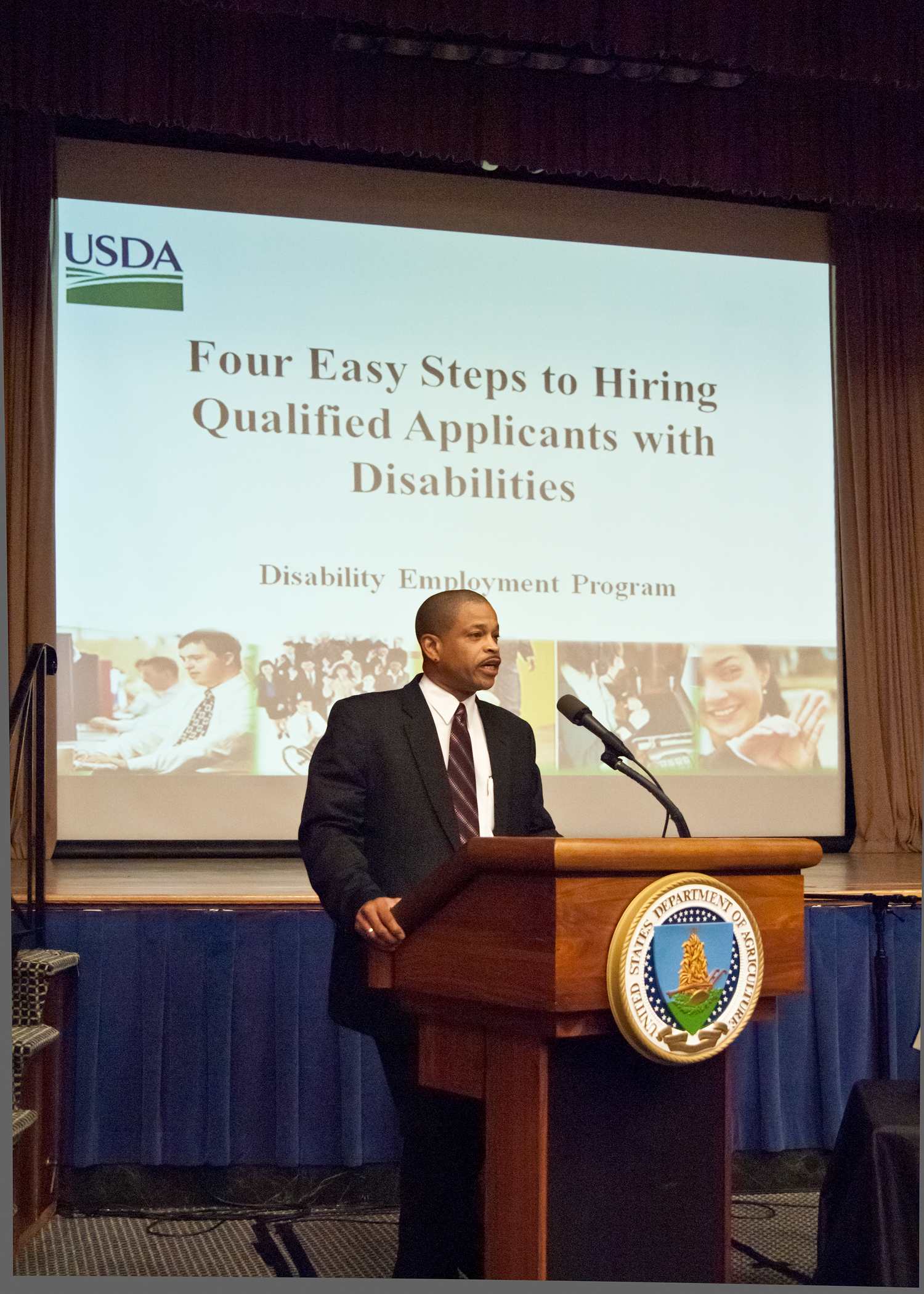 20111005-OHRM-RBN-1256 William P. Milton, Jr., Deputy Director, Office of Human Resources Management explained the “Four Easy Steps to Hiring Qualified Applicants with Disabilities” to USDA employees during National Disability Employment Awareness Month event in Washington, DC, on Wednesday, October 5, 2011. Agriculture Secretary Tom Vilsack is dedicated to establishing the USDA as the lead Federal agency in employing individuals with disabilities. The theme for the event is “Profit by Investing in Workers with Disabilities.” USDA is committed to ensuring that all our programs are accessible and inclusive of individuals with disabilities. USDA Photo by Bob Nichols.